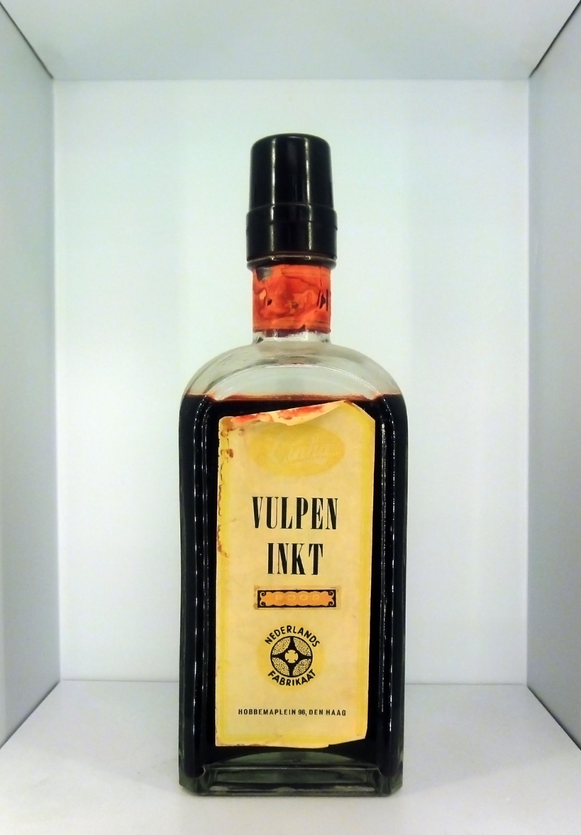 "Fountain pen ink" - red - of Dutch manifaction